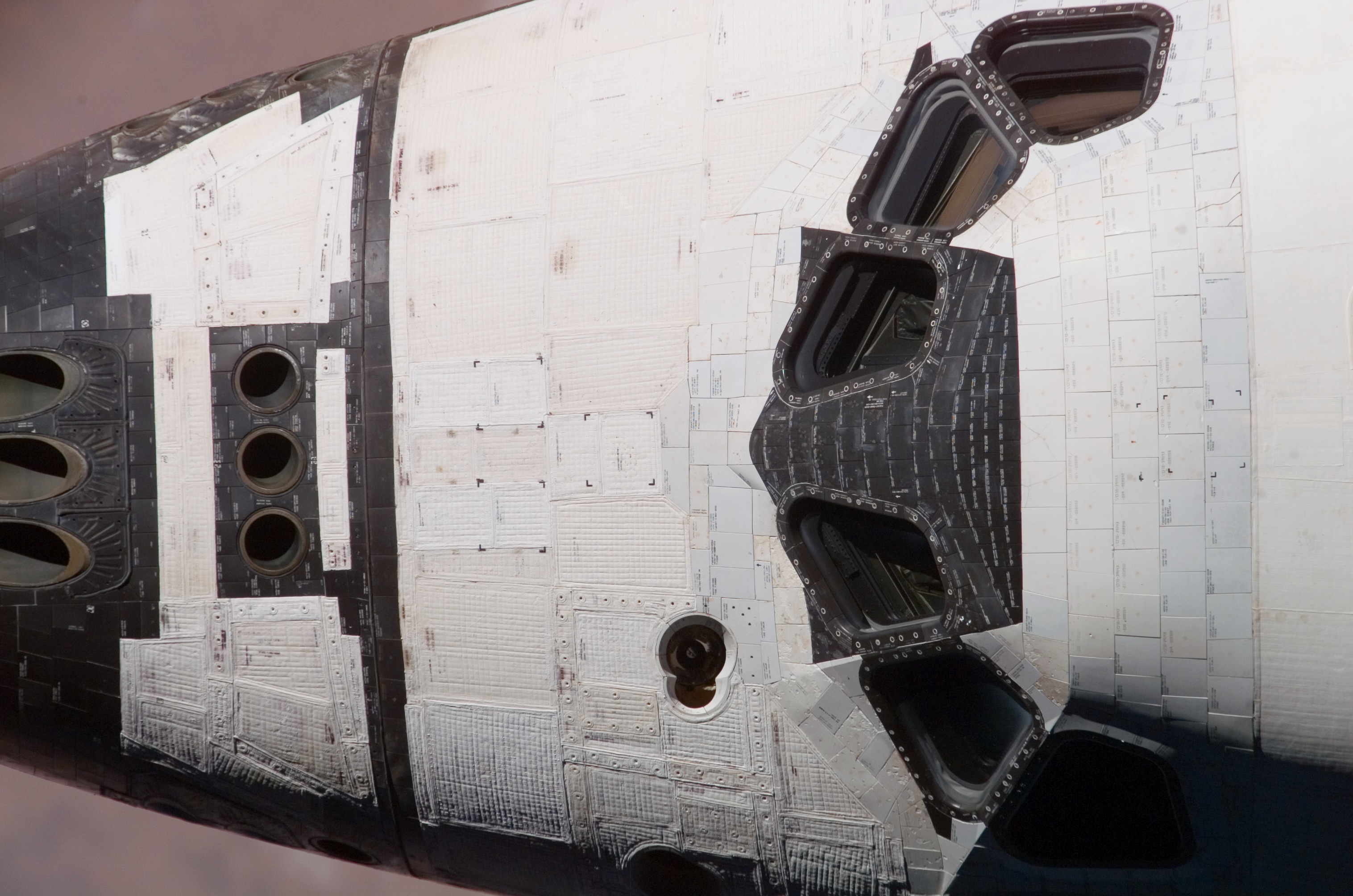 An Expedition 13 crew member aboard the International Space Station took this digital still image providing a "bird's eye" view of the crew cabin of the Space Shuttle Atlantis during a comprehensive survey prior to the docking of the two space vehicles.